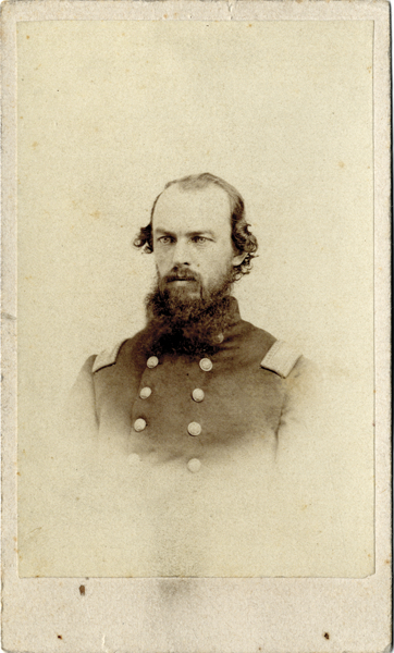 Cabinet card of Colonel Charles Victor DeLand (promoted to Brevet Brigadier General on March 14, 1865) of the 1st Regiment, Michigan Sharpshooters, c. 1863-1865, by J. V. Cookingham, artist, born in New York about 1828 and active 1850s-1870s in Ohio and Michigan. Detroit Public Library